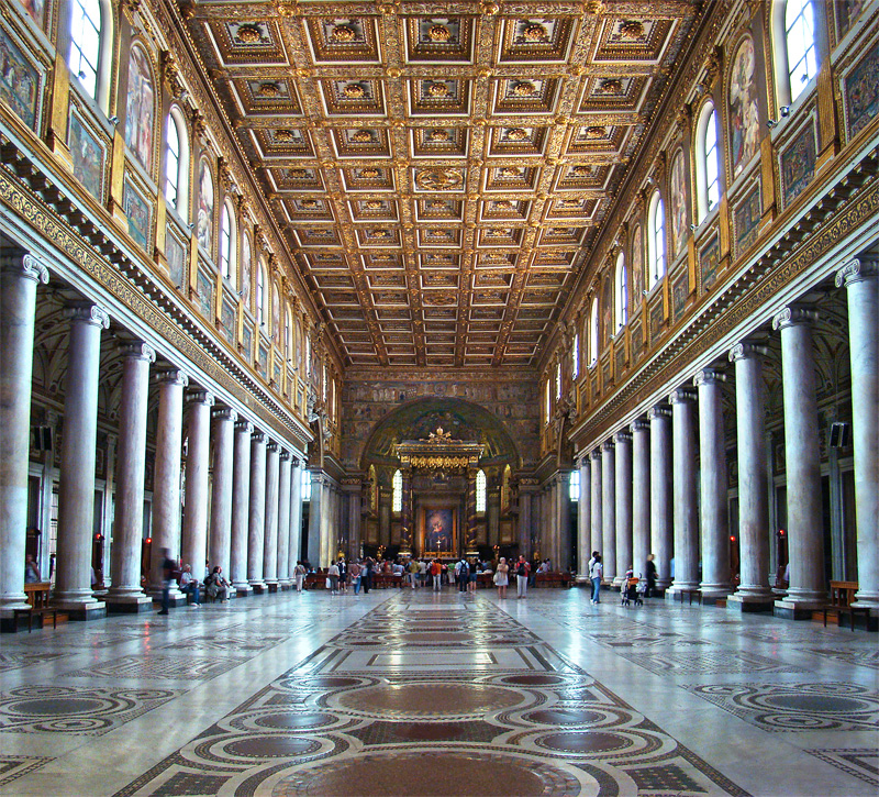 Basilica of Santa Maria Maggiore, Vatican, located in Rome, Lazio, Italy.